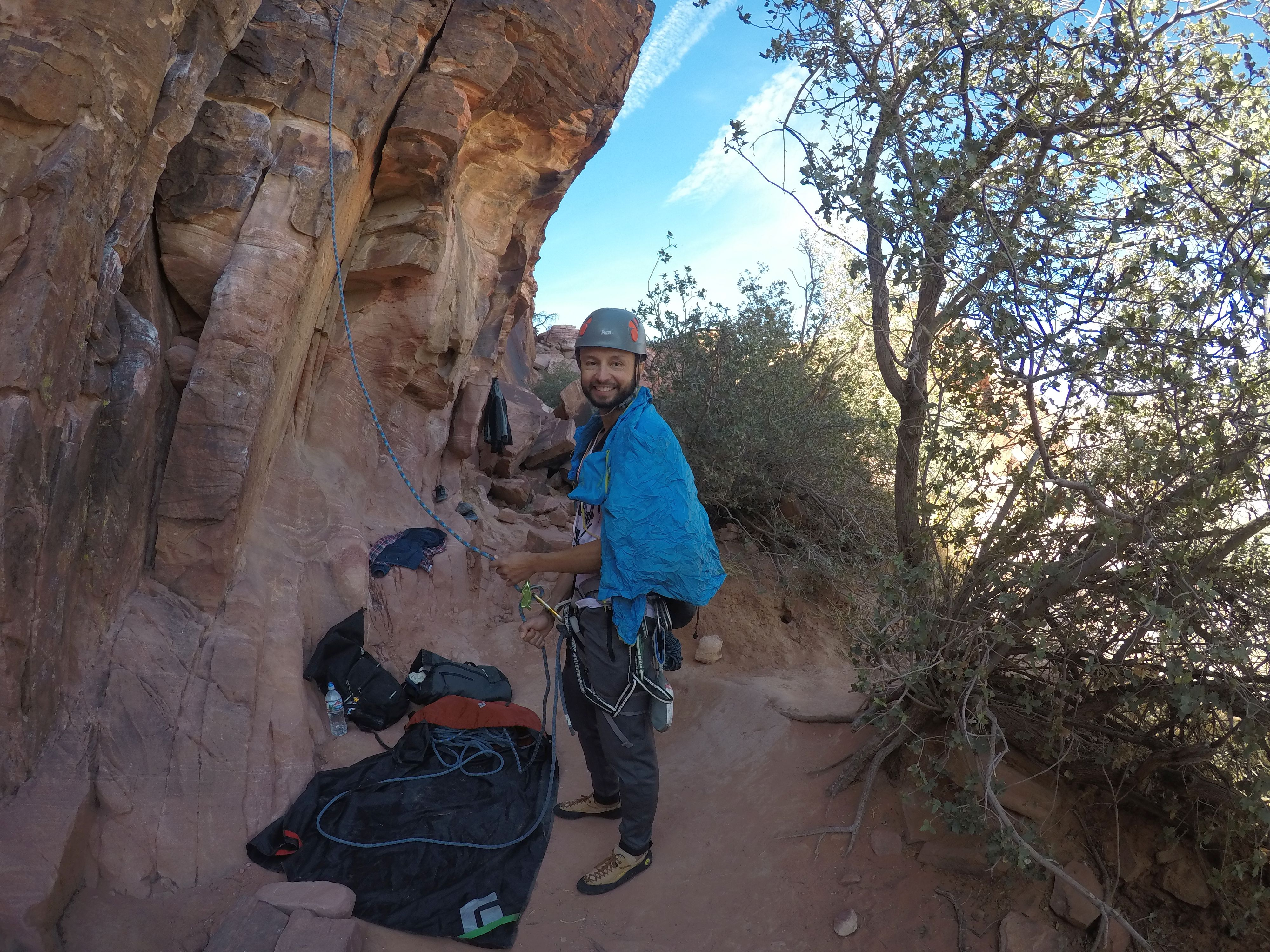 Red Rock Canyon National Conservation Area: Climbers on Physical Graffiti (5.6).